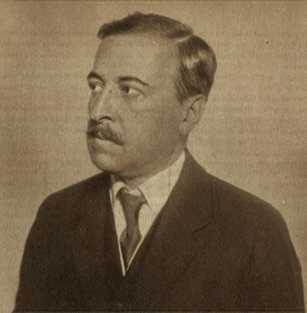 Hugo von Hofmannsthal (1874–1929), Austrian novelist, librettist, poet, dramatist, narrator, and essayist and co-founder of the Salzburg Festival.